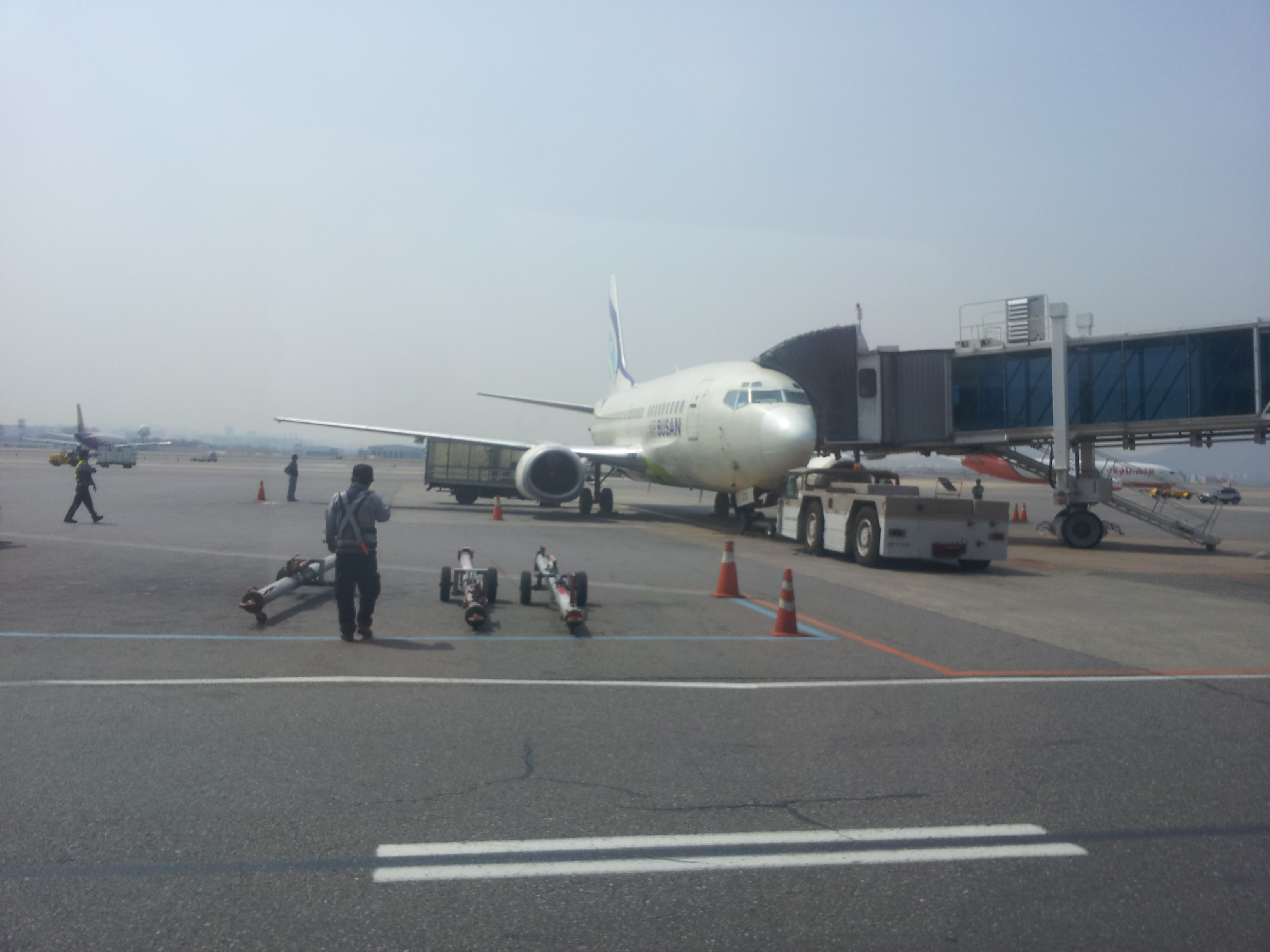 Air Busan airplain docking with Gimpo International Airport